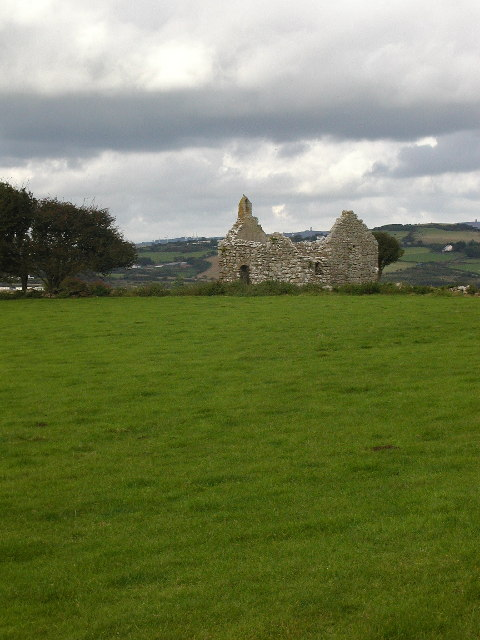 Hen Capel Lligwy (Old Lligwy Chapel) The building, now roofless, was originally built in the 12th century, but the upper parts of the walls were reconstructed in the 14th century. A small chapel, with a crypt underneath, was added in the 16th century